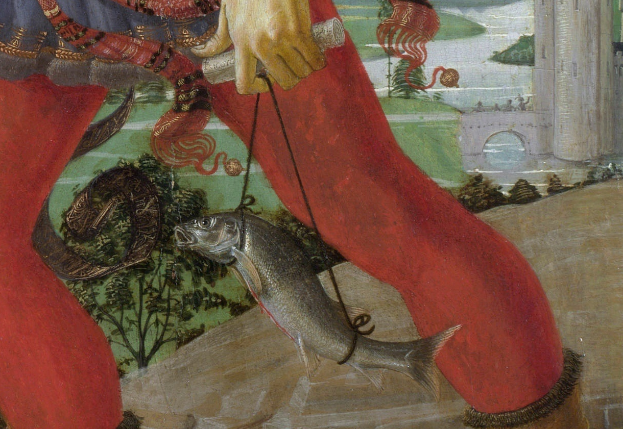 Workshop of Andrea del Verrocchio. Tobias and the Angel. 33" x 26"; 84 cm x 66 cm. 1470-75. National Gallery London. Detail.